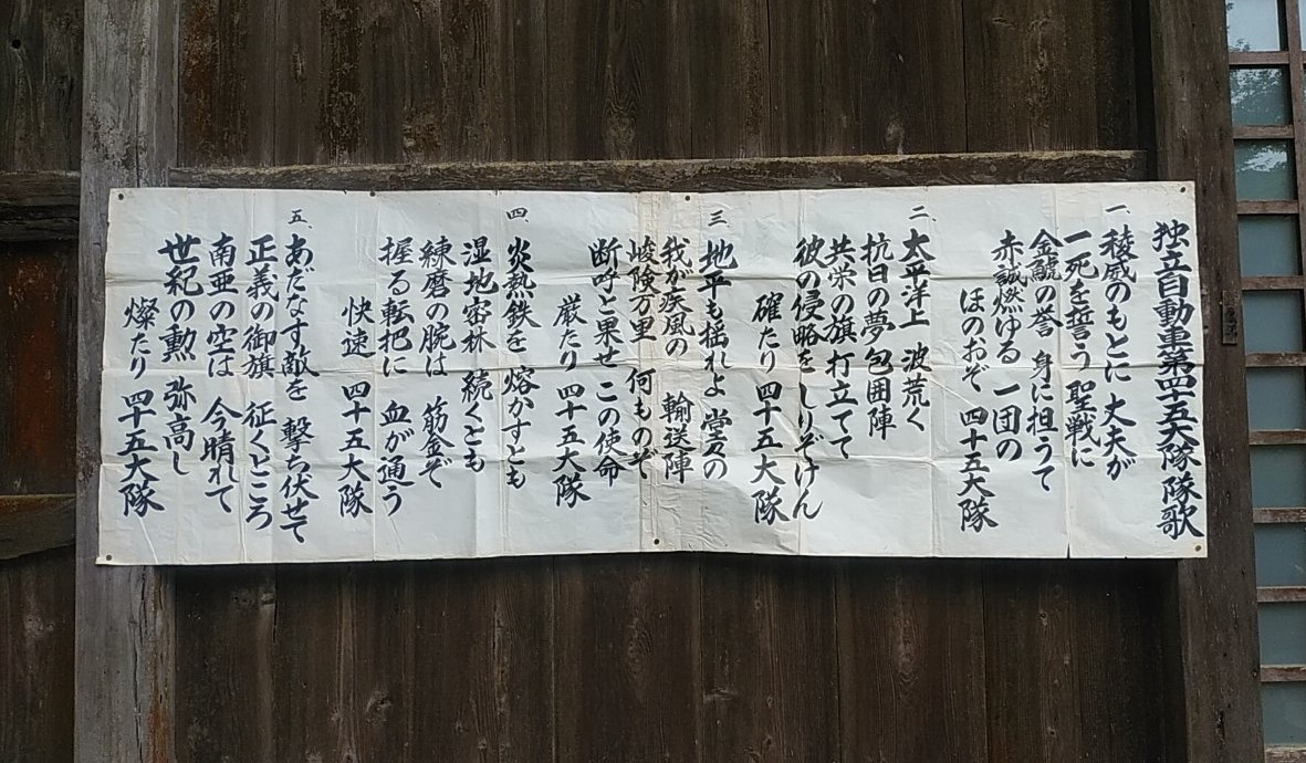 Shot at Shigetu-den,Shuzenji,Izu-city,Shizuoka Pref. Japan on 21st July 2019